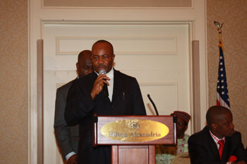 Governor Godswill Akpabio delivers key policy address during the AKISAN National Convention.